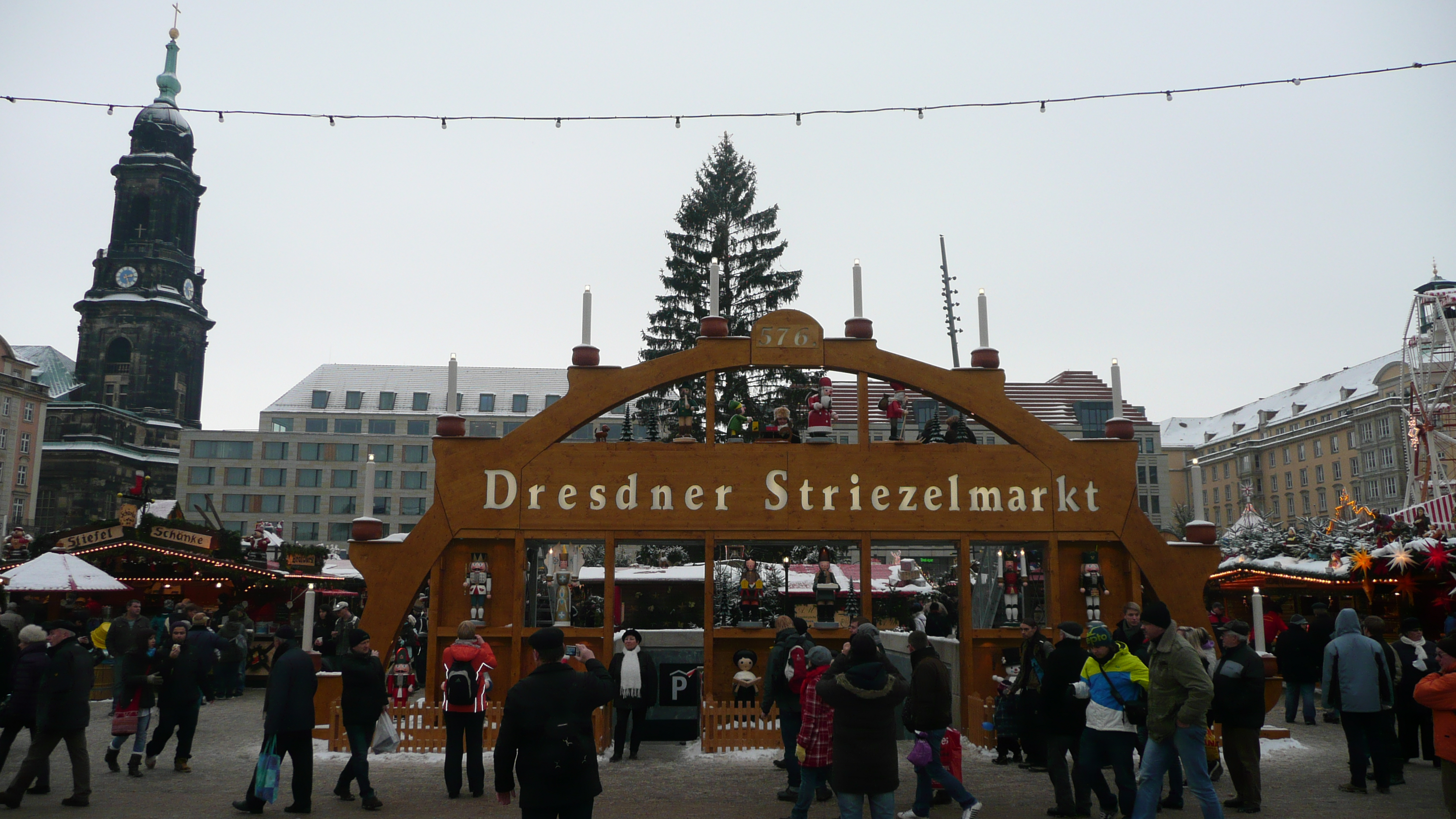 Christmas market in Dresden 2010